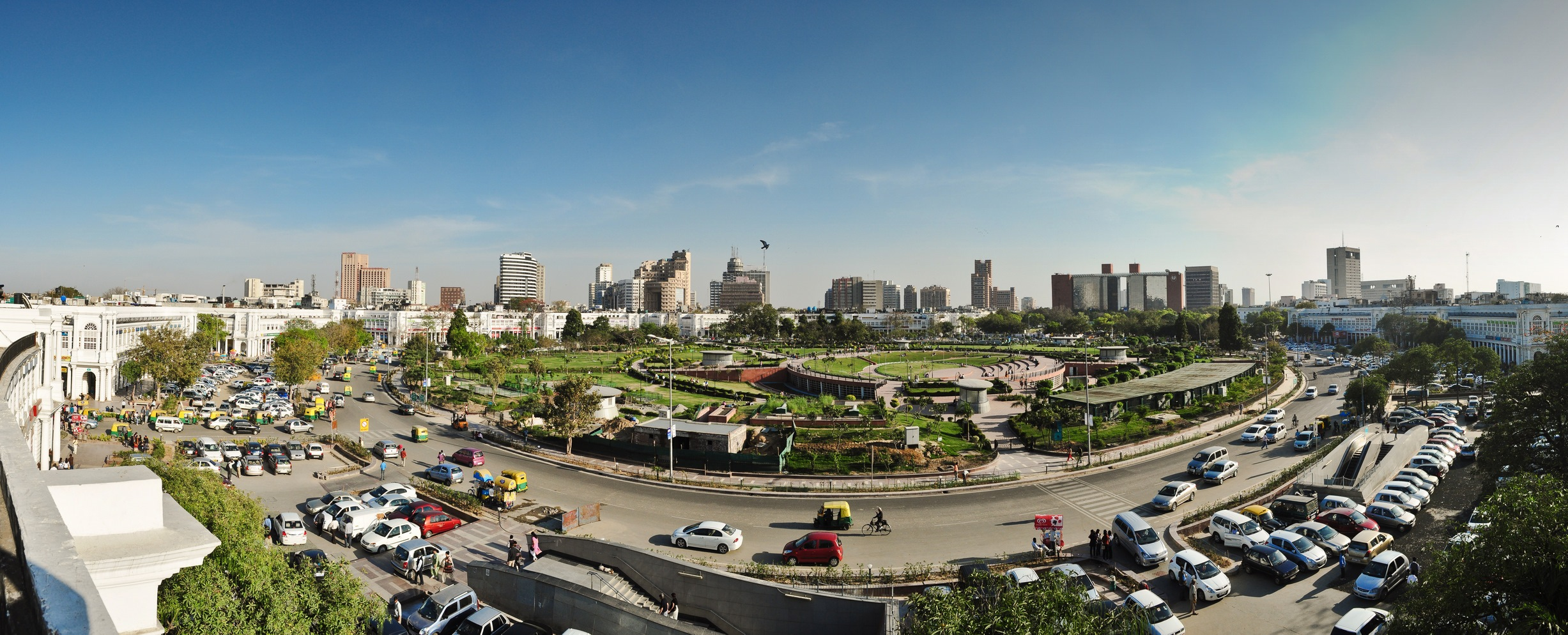 Panorama view of Skyline at Rajiv Chowk (Connaught Place) in New Delhi (2011).